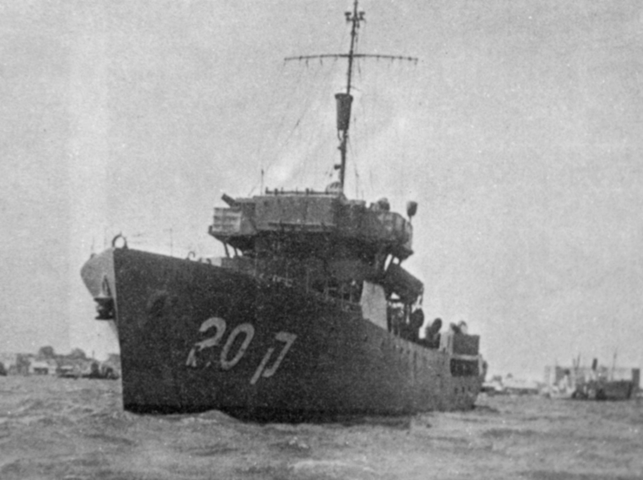 The INS Haganah (K-20) of the Israeli Navy. The ship was purchased by Palestinian Jews for immigration purposes in the 1940s and served in the Israeli War of Independence.